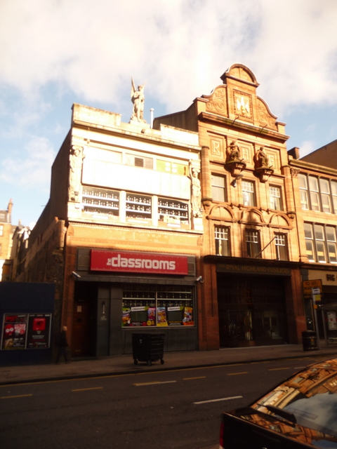 Glasgow: Royal Highland Fusiliers building An interesting façade on the north side of Sauchiehall Street, at least partly taken over by what appears to be a nightclub, The Classrooms, on the western end.